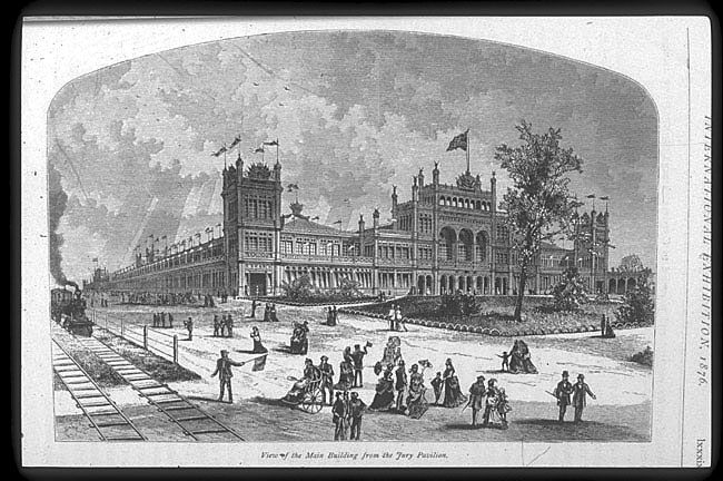 Engraving: "View of the Main Building from the Jury Pavilion" from Earl Shinn, Walter Smith & Joseph M. Wilson, Masterpieces of the Centennial International Exhibition Illustrated (Philadelphia: Gebbie & Barrie, 1876-78, vol. 3, p. lxxxix Smithsonian Institution Libraries